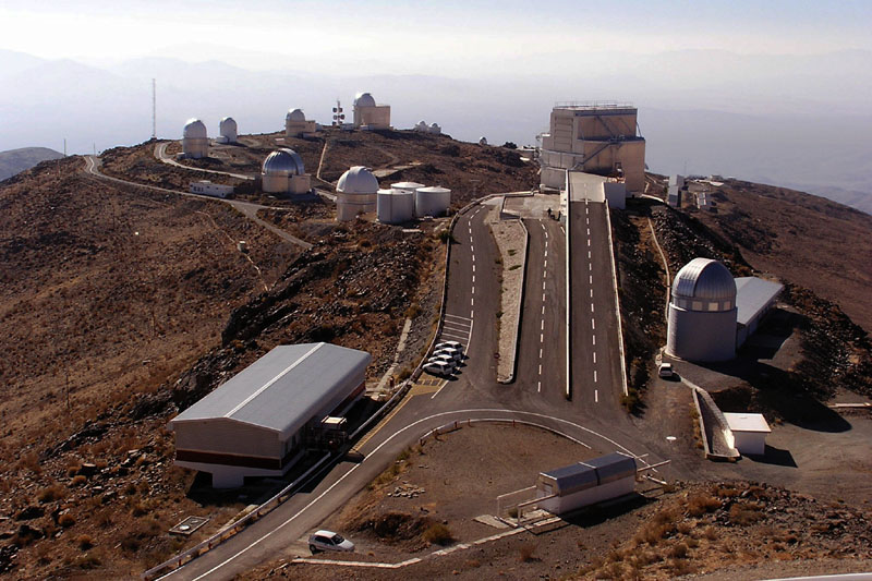 La Silla Observatory seen from 3.6m telescope (located on higest peak).